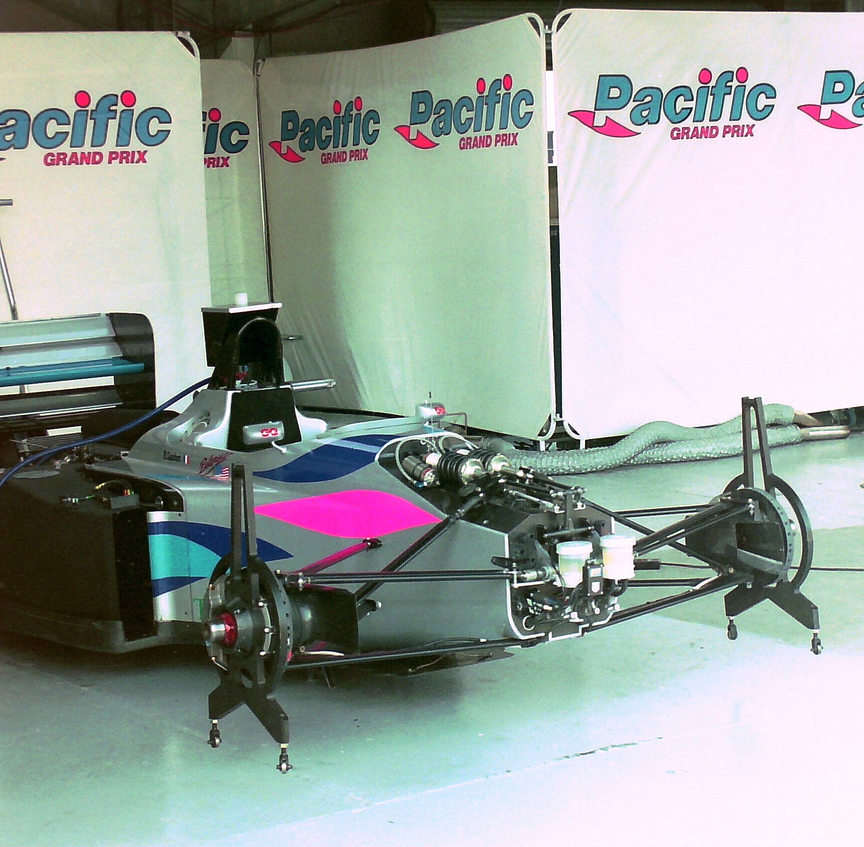 Pacific PR01 in the pits at the 1994 British Grand Prix